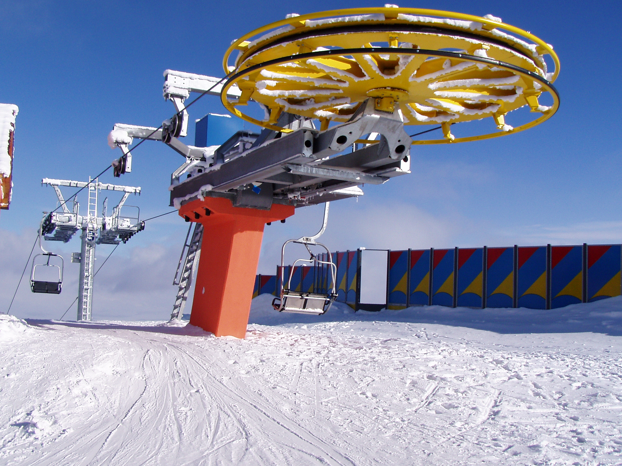 Ski lift mechanism in the resort of Tsakhkadzor, Armenia. The highest Lift on Mount Teghenis (2819 m).